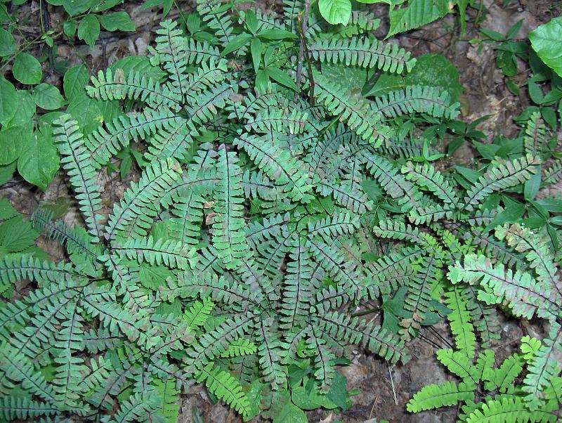 Northern Maidenhair fern